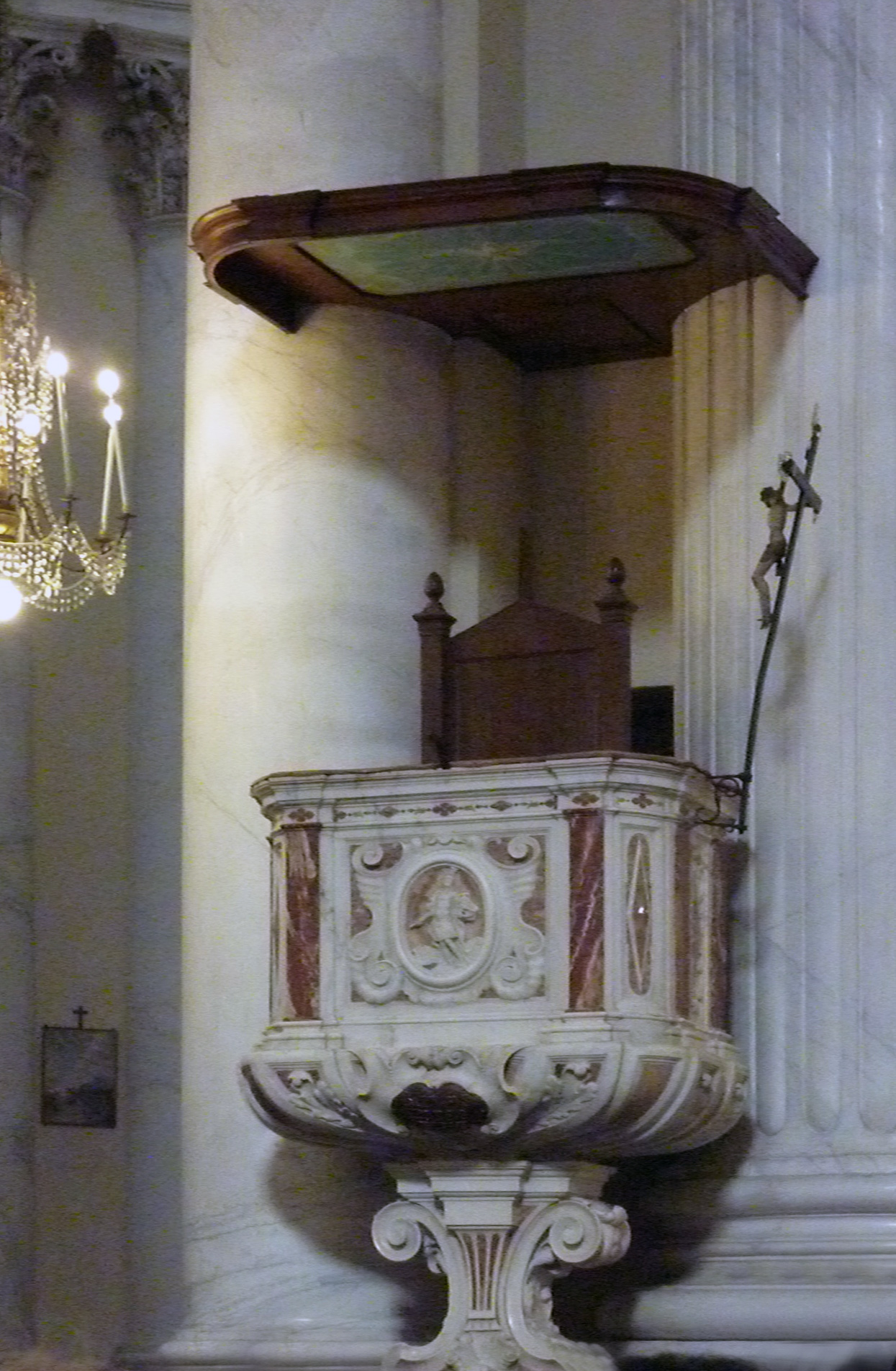 Baroque (XVII century) marble pulpit of Saint Maurice's basilique, Porto Maurizio - Imperia, Italy